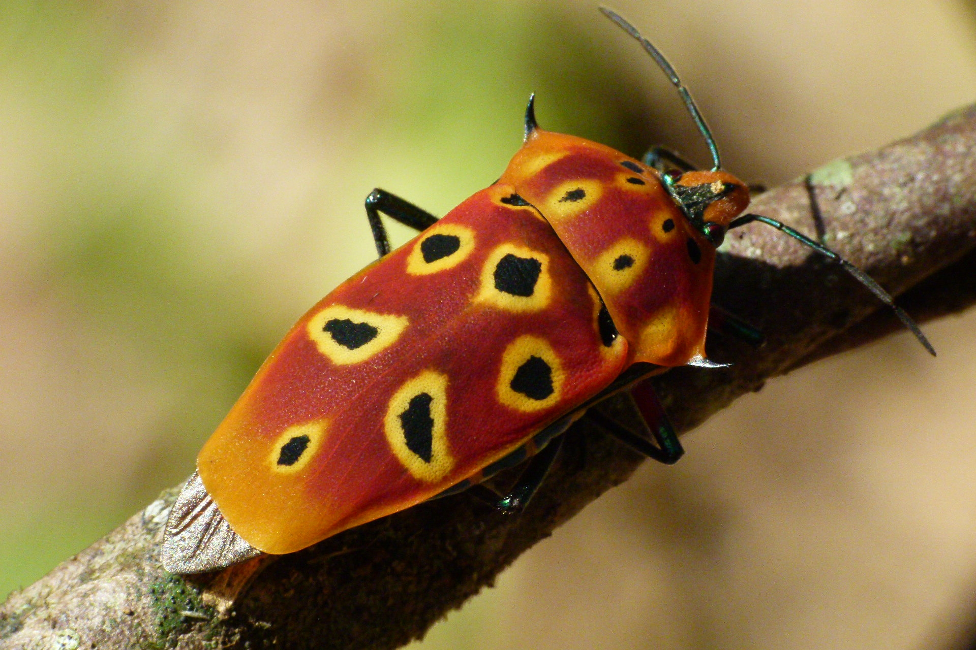 Cantao ocellata